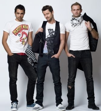 Akcent Romania